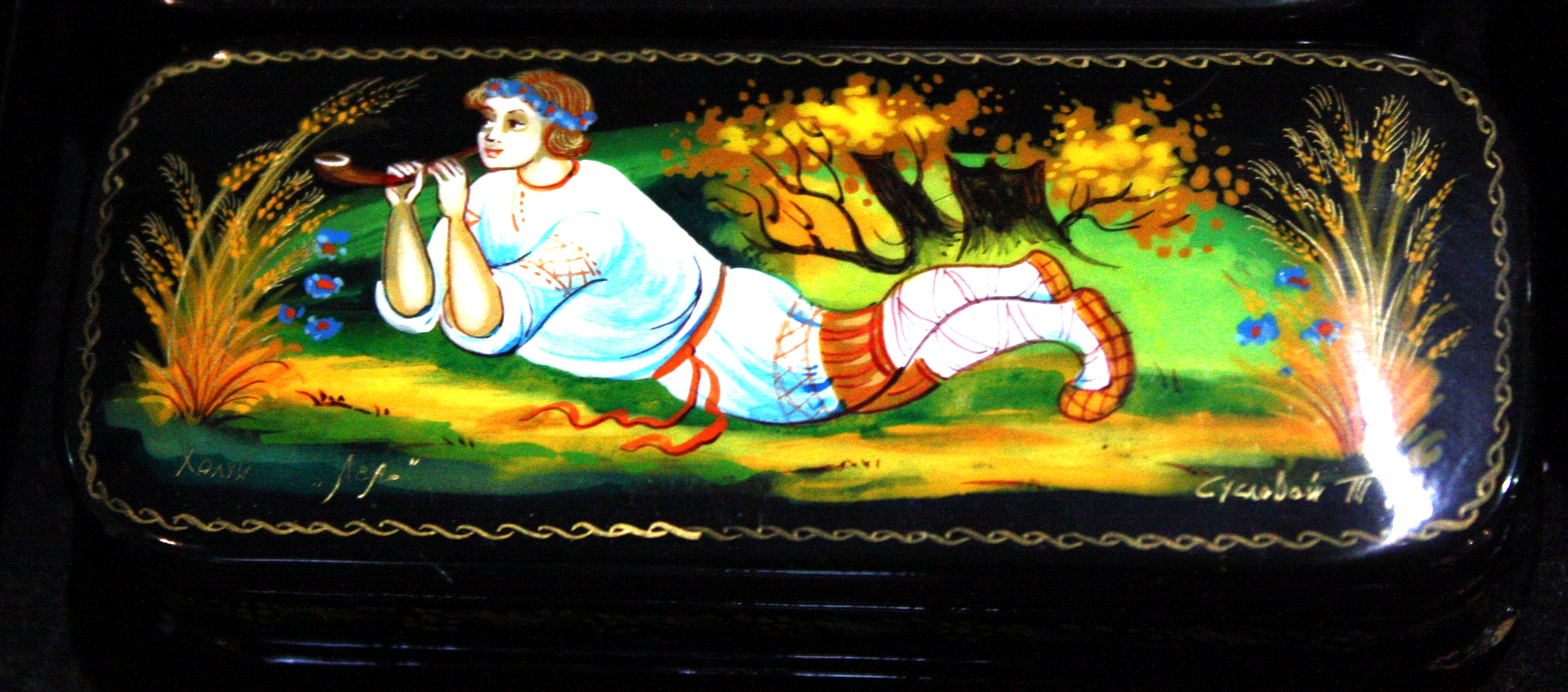 Russian lacquer art, russische Lackminiaturen, St. Petersburg, 2009, magazin Berjoska, for foreign tourists; Kholuj lacquer art